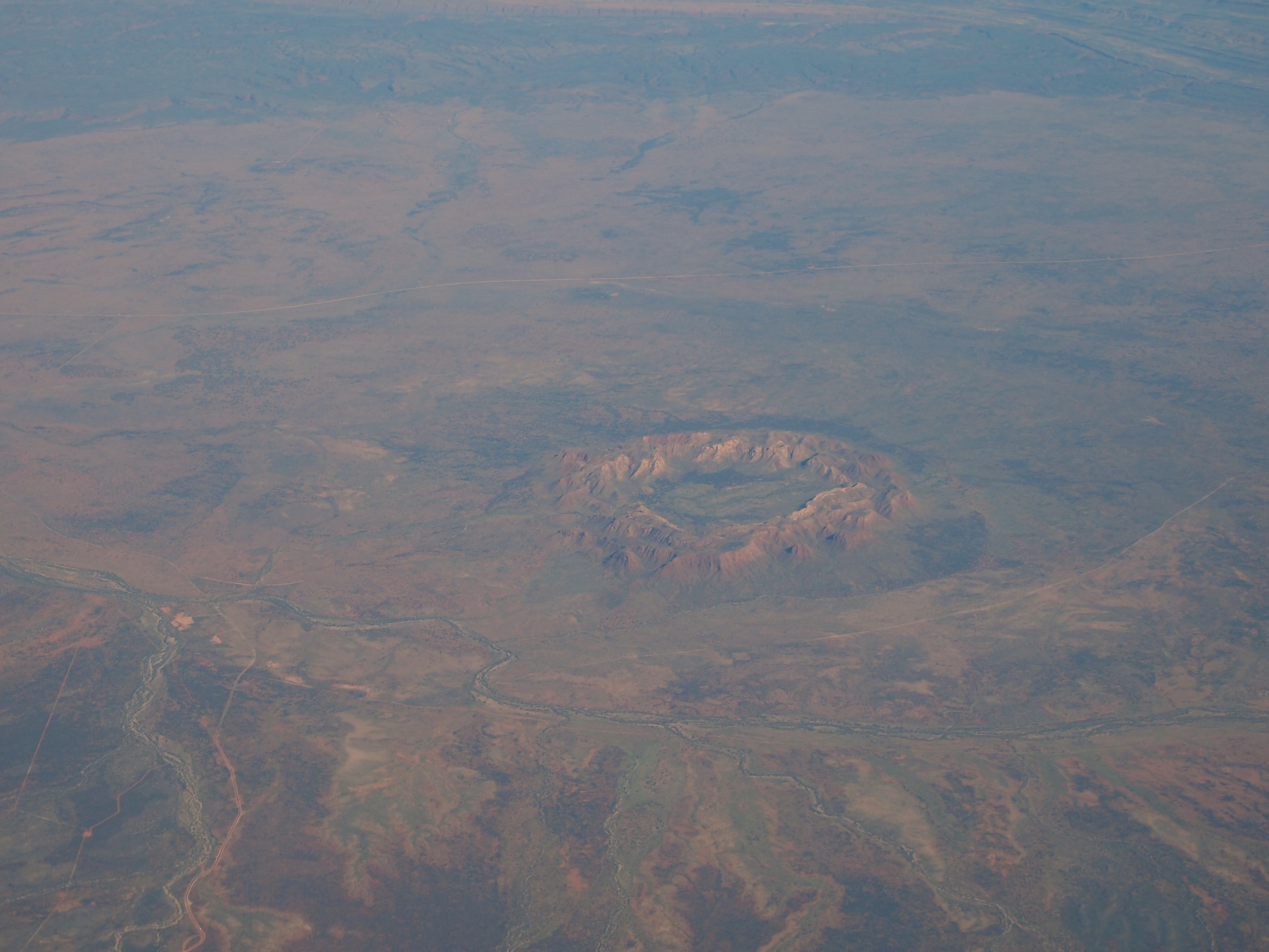 Gosses Bluff crater viewed from an Etihad flight from Abu Dhabi to Sydney